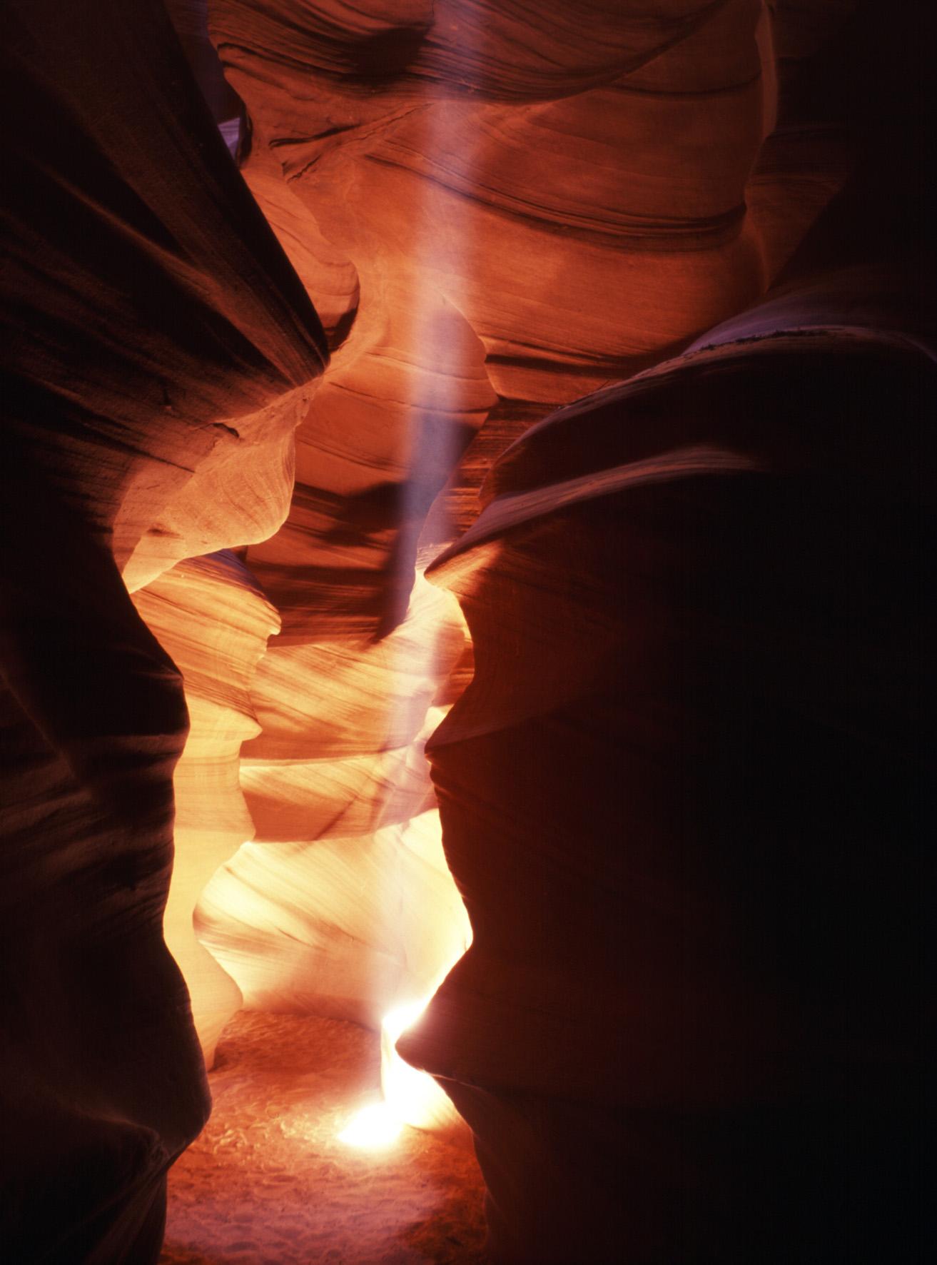 Antelope Canyon, Arizona, USA, Summer 2005, photographer Raimund Marx . The picture is a scan of a 2.5 x 2 inch medium format slide. It was scanned using a flatbed scanner. Published with permission of the photographer by Rhaessner 08:10, 8 February 2006 (UTC)